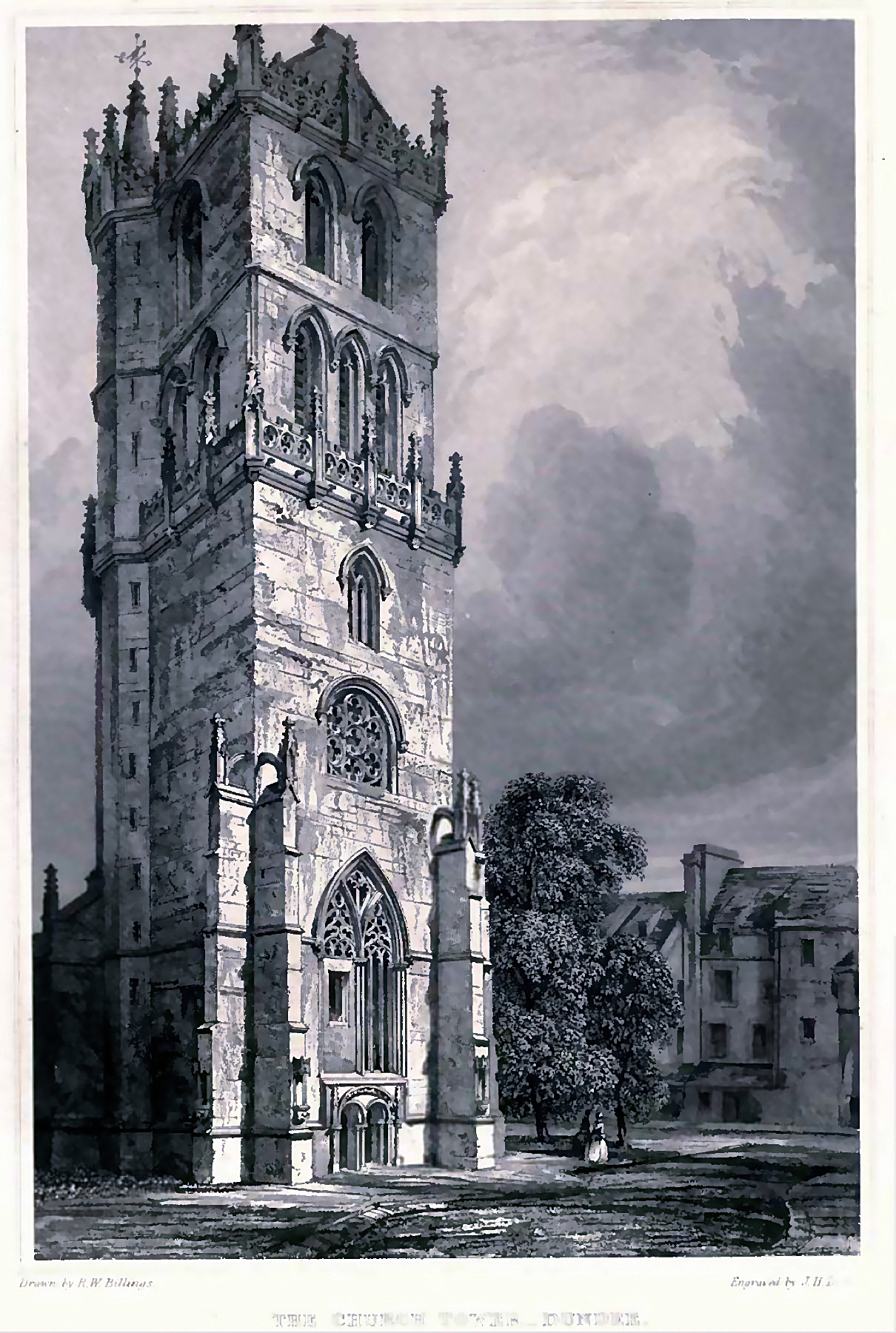 Dundee Church Tower, Scotland.